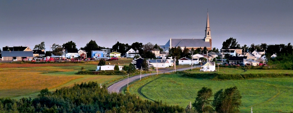 Village de Saint-Clément, dans la MRC des Basques au Bas-Saint-Laurent. Auteur : Nicolas Gagnon